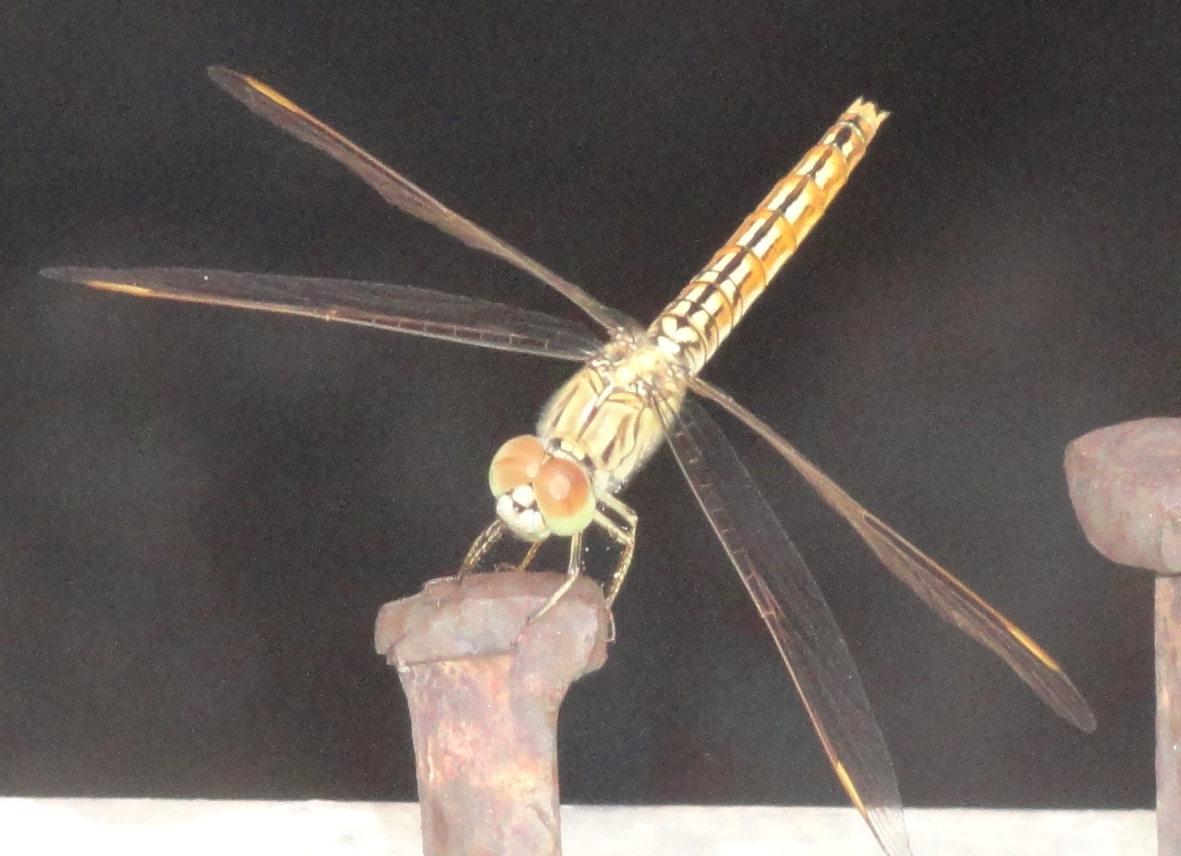 తుమ్మెద.